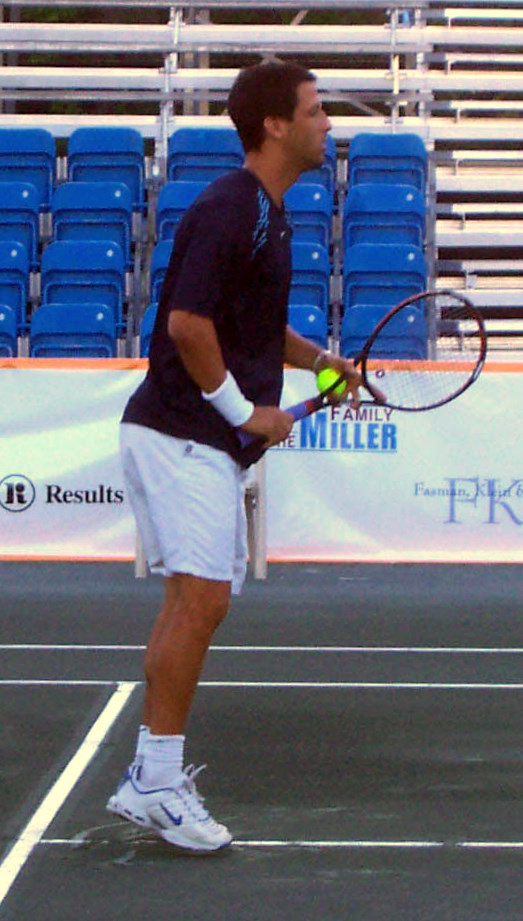 Paul Goldstein Playing In New City, New York